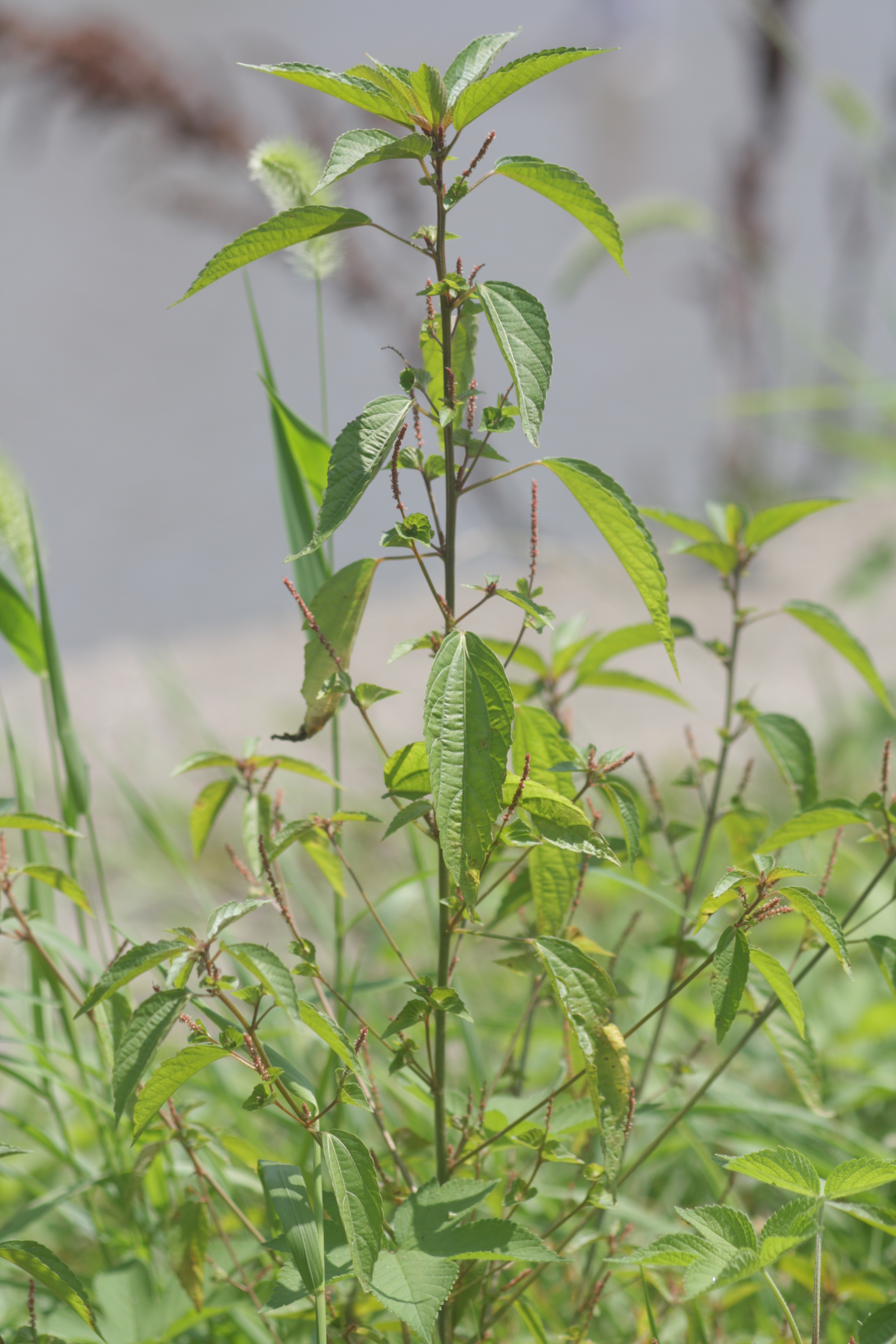 Acalypha australis in Gwangyang, Korea